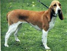 Swiss Hound